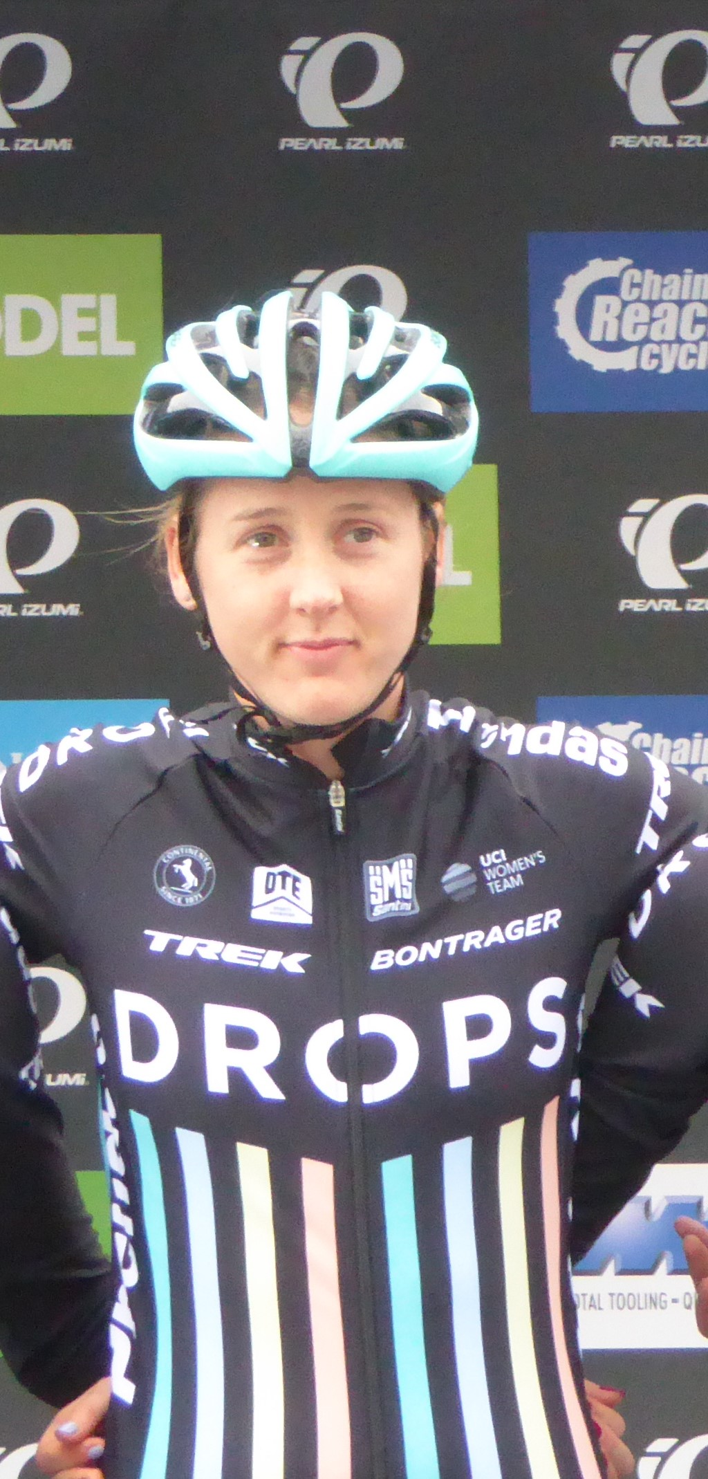 Rose Osborne (Drops), prior to Round 1 of the Matrix Fitness GP Series in Motherwell, on 17 May 2016